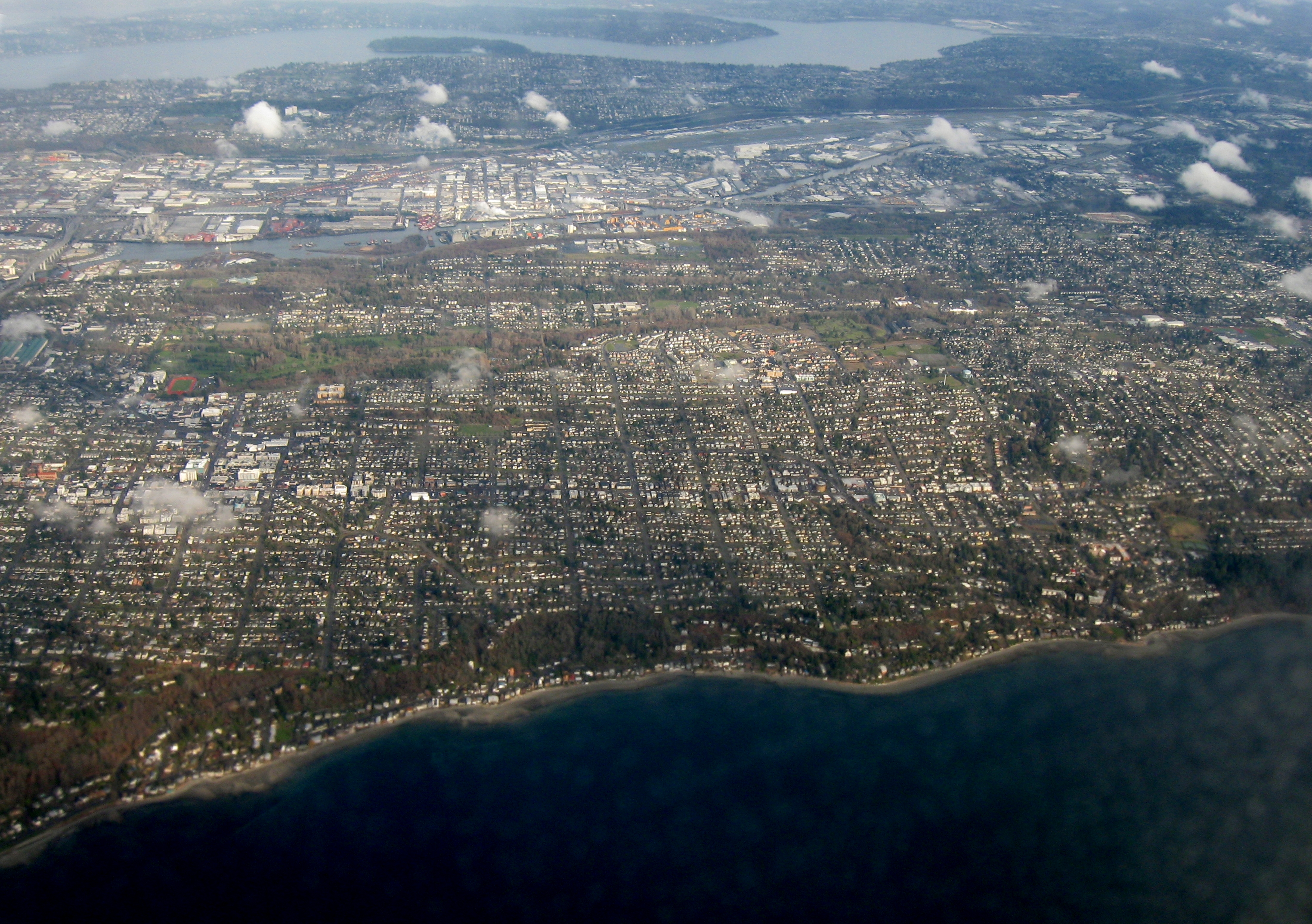 Aerial view of Seaview in Seattle, facing west towards Seward Park, which is top center in Lake Washington along with Mercer Island. Duwamish Waterway runs through middle top.